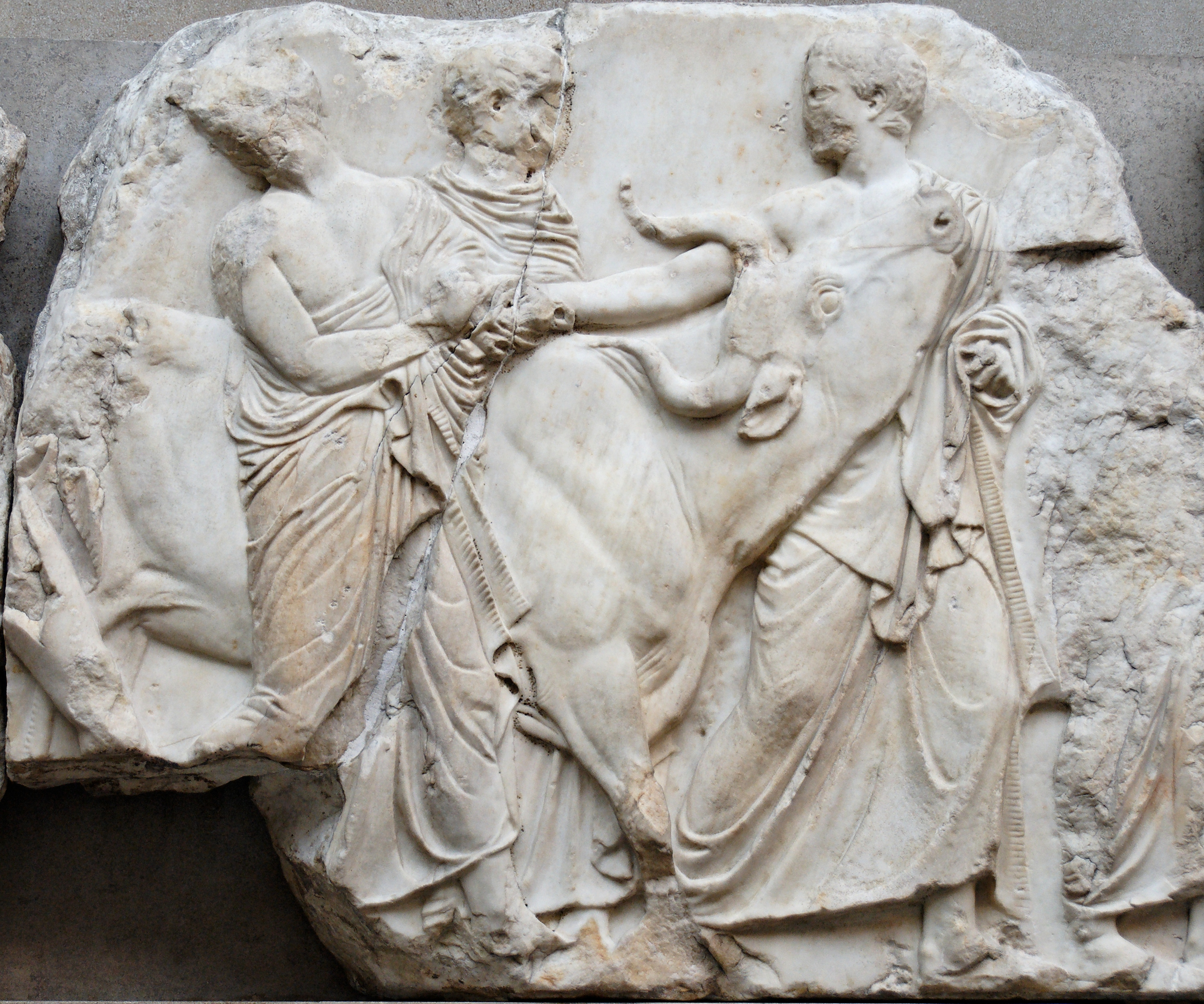 Youths leading a heifer to the sacrifice. Block XLIV (fig. 132-136) from the South frieze of the Parthenon, ca. 447–433 BC.